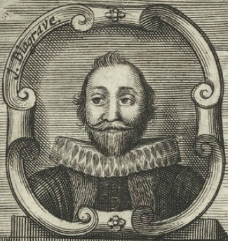 Portrait of John Blagrave. Engraving from the title page of Planispherium Catholicum, quod vulgo dicitur The Mathematical Jewel, a reprint of Blagrave's most famous work The Mathematical Jewel, published in 1658, London. Engravings by a D. Loggan.